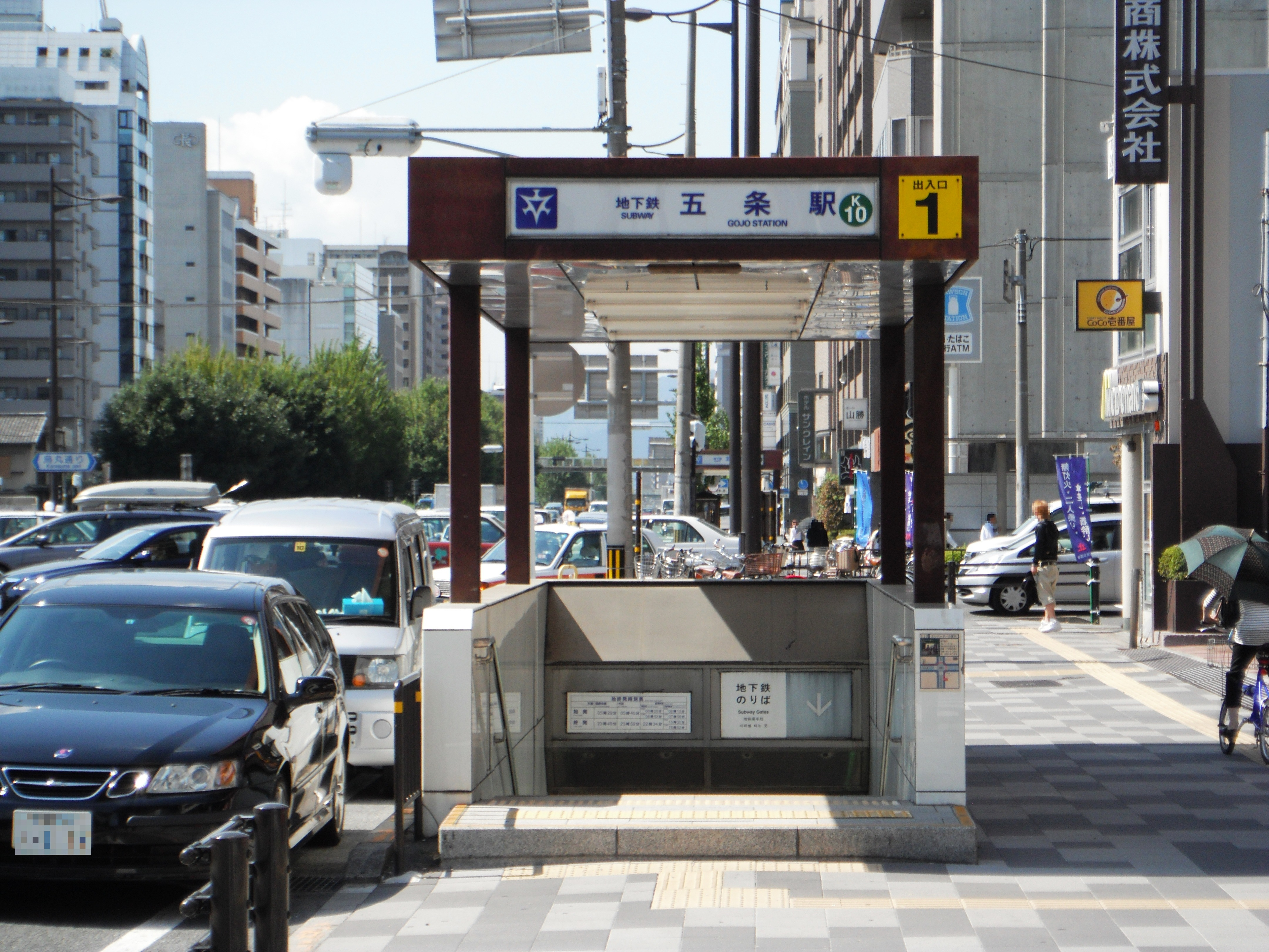 Entrance No. 1 to Gojō Station on the Kyoto Subway Karasuma Line in Shimogyō-ku, Kyoto